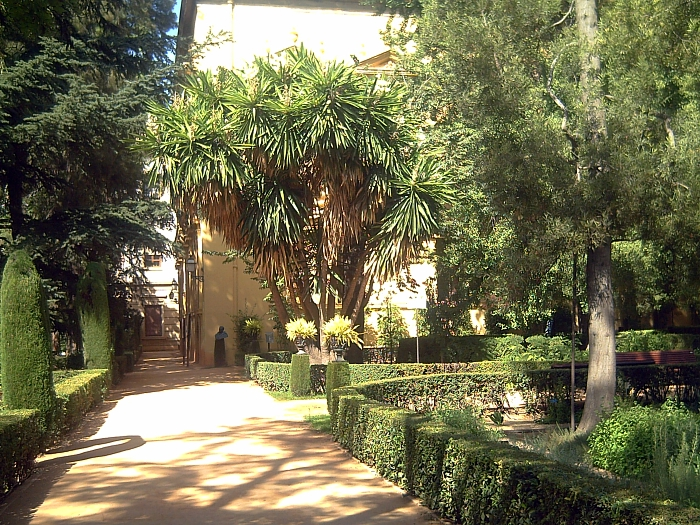 A work release by Javier martin, Jardín Botánico de la Universidad de Granada Granada, Spain 2006, October 7. A free donation to Wikipedia.